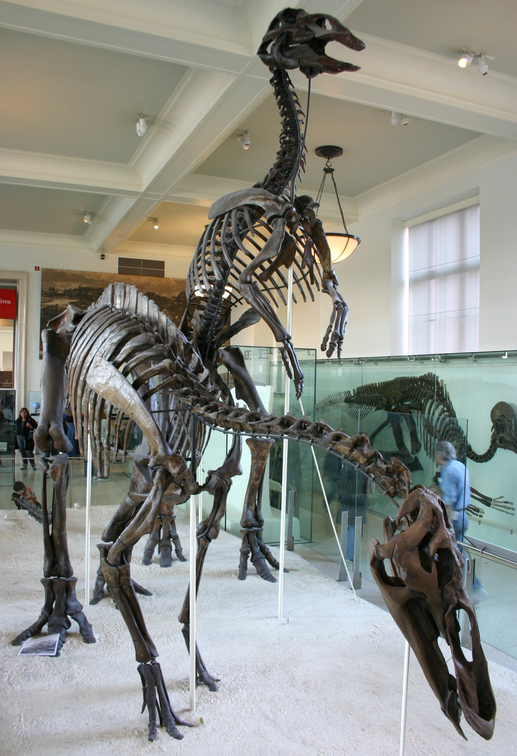 Skeletal mounts of two very large individuals of the large duck-billed dinosaur Edmontosaurus annectens in the hall of ornithischian dinosaurs of the AMNH, New York. These two specimens (AMNH 5730 from South Dakota and AMNH 5886 from Montana) have been previously referred to as “Anatotitan copei”, “Anatosaurus copei”, “Hadrosaurus mirabilis”, and “Trachodon mirabilis”.